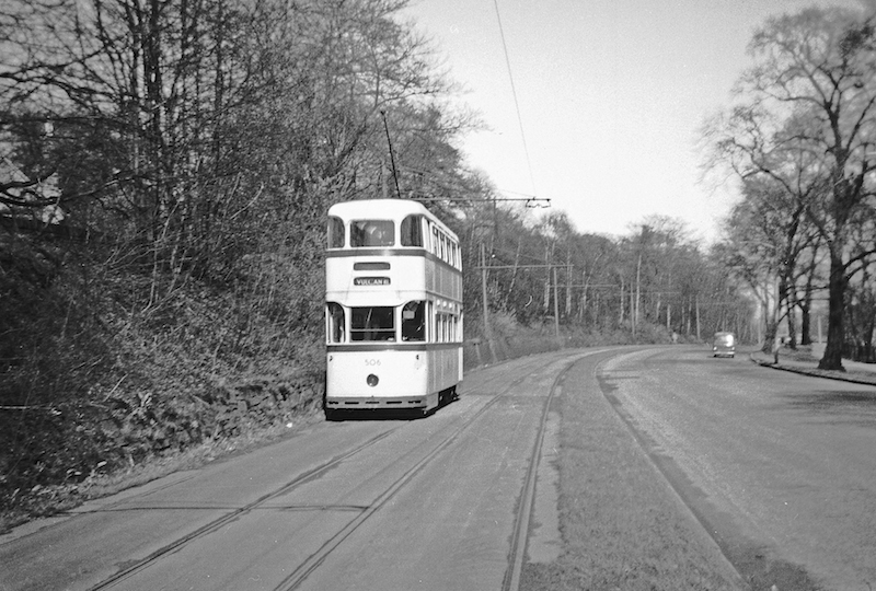 Sheffield Tramways - Abbeydale Road 1960